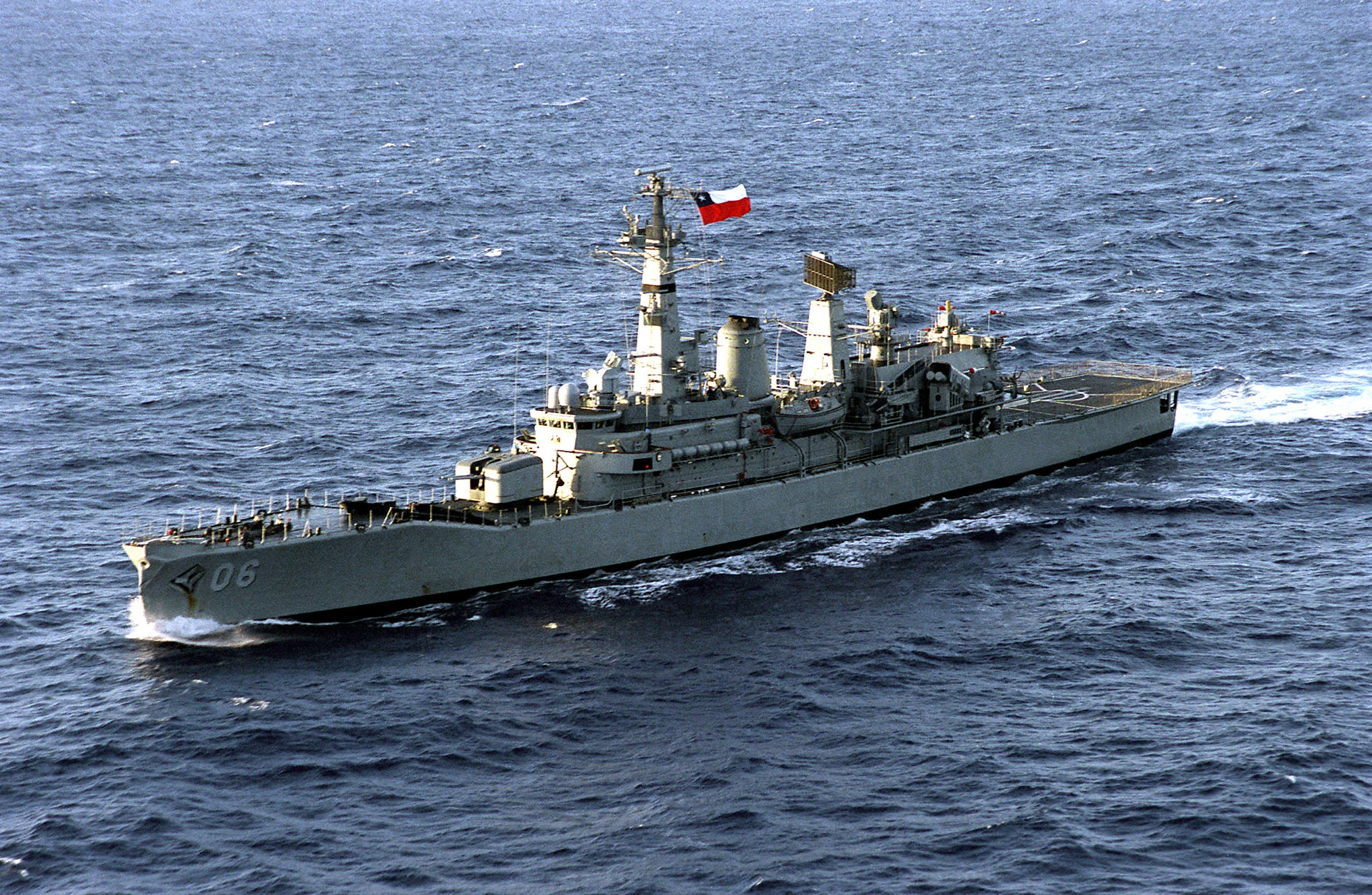 The the Chilean navy frigate Almirante Condell (PFG-06) as she returns to Hawaii (USA) at the end of exercise "RIMPAC '98".